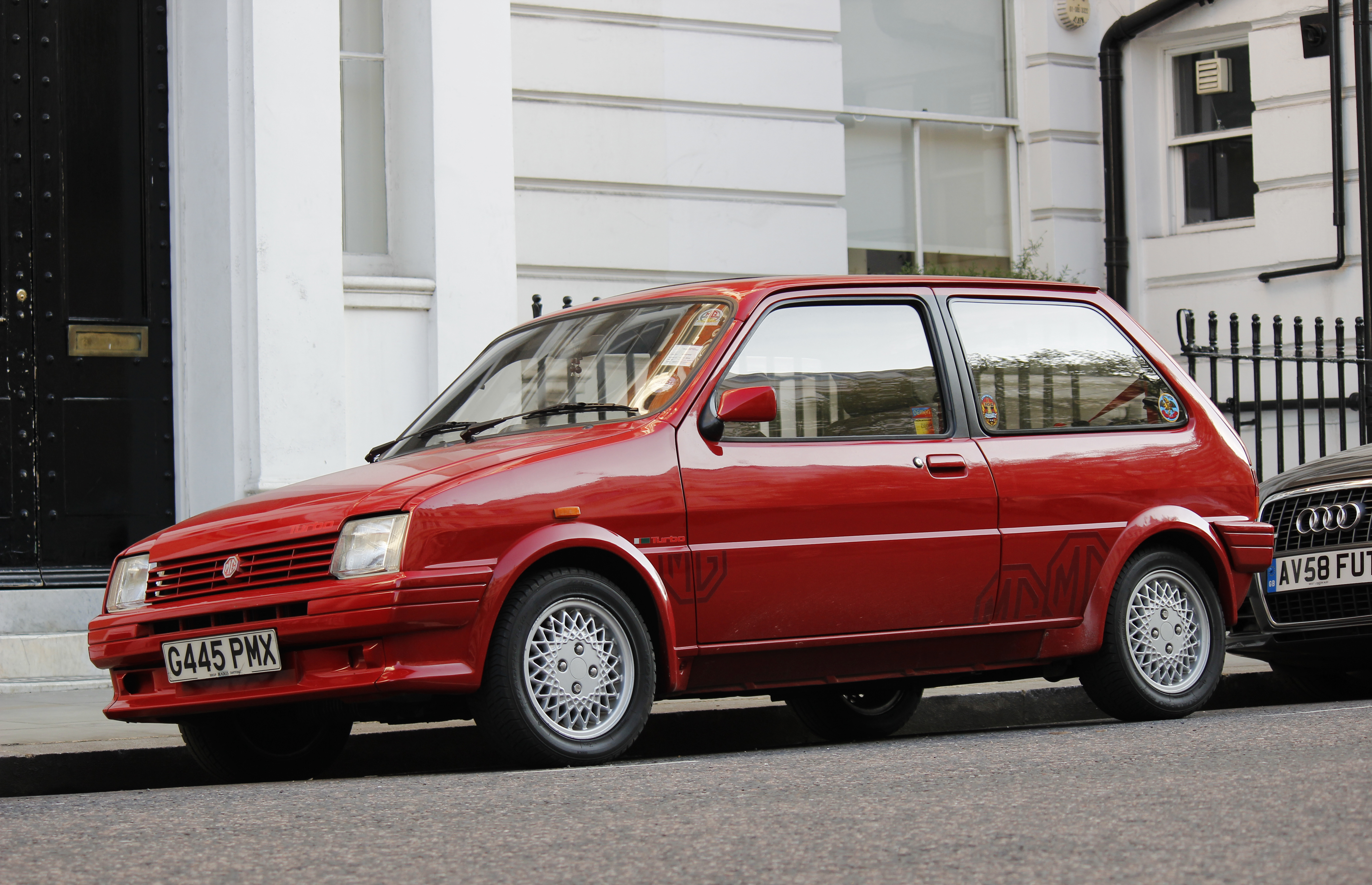 Love it! Must be a really fun car to wander around the city.